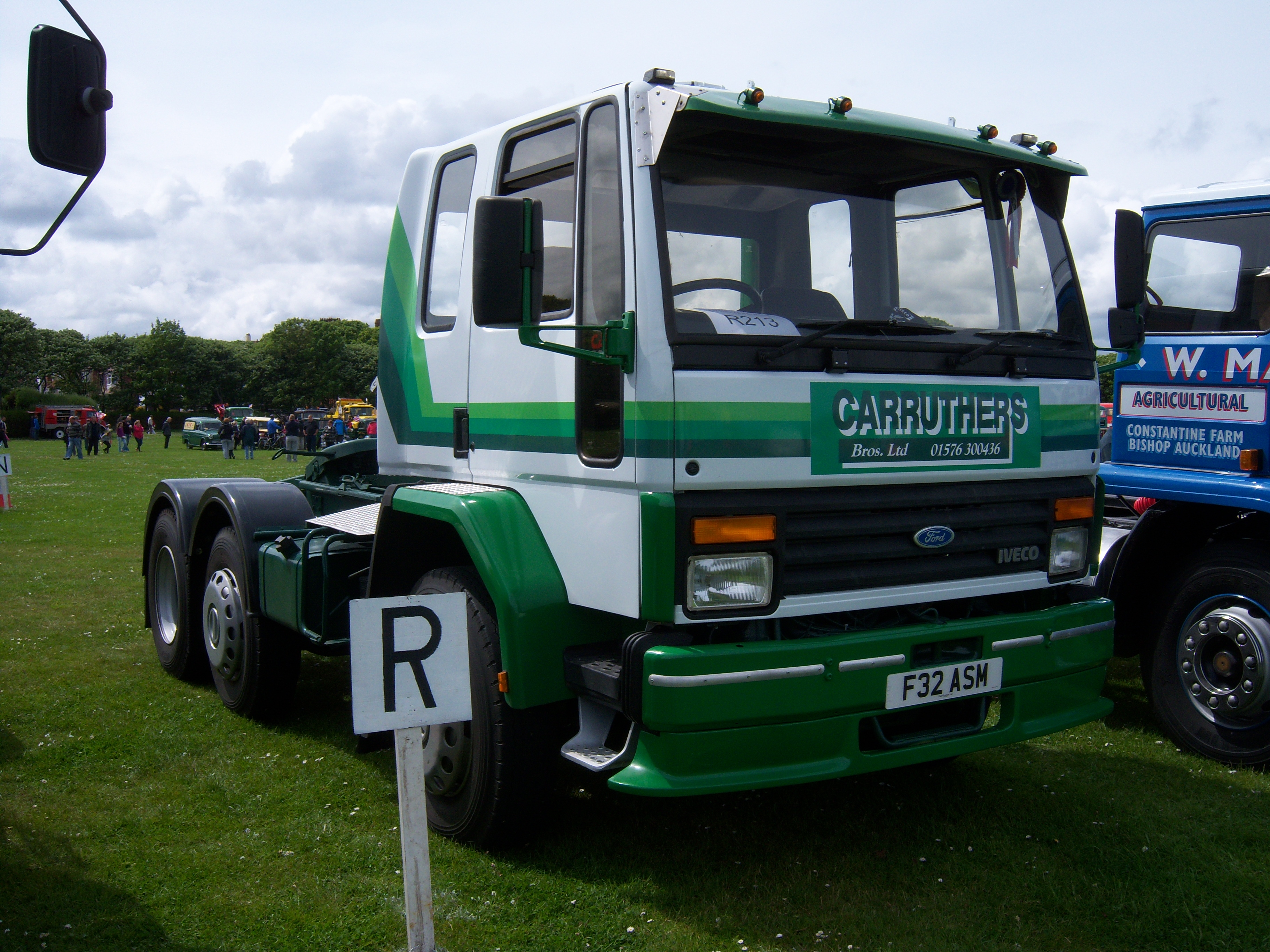 A 1989 Ford Cargo 3828TS (reg. F32 ASM) tractor unit, pictured at the end of the 2012 HCVS Tyne-Tees Run. It's in the colours of Carruthers Brothers Ltd.